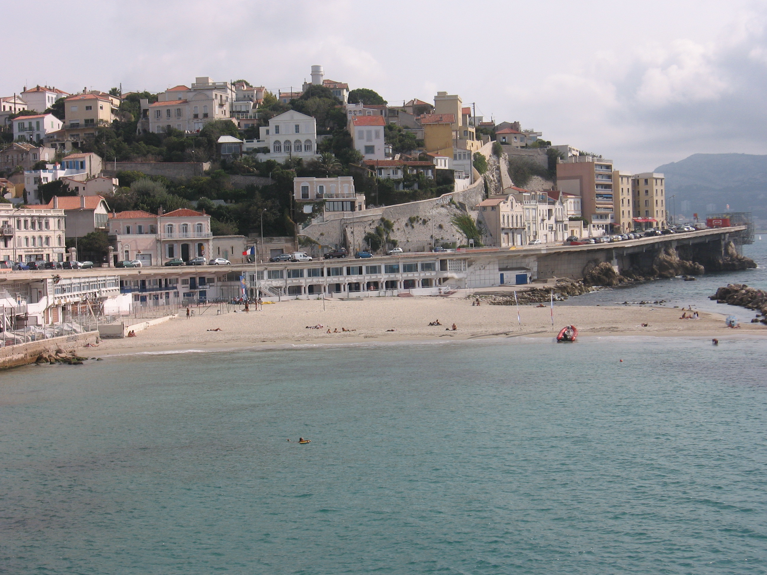 Corniche Président John Kennedy, plage